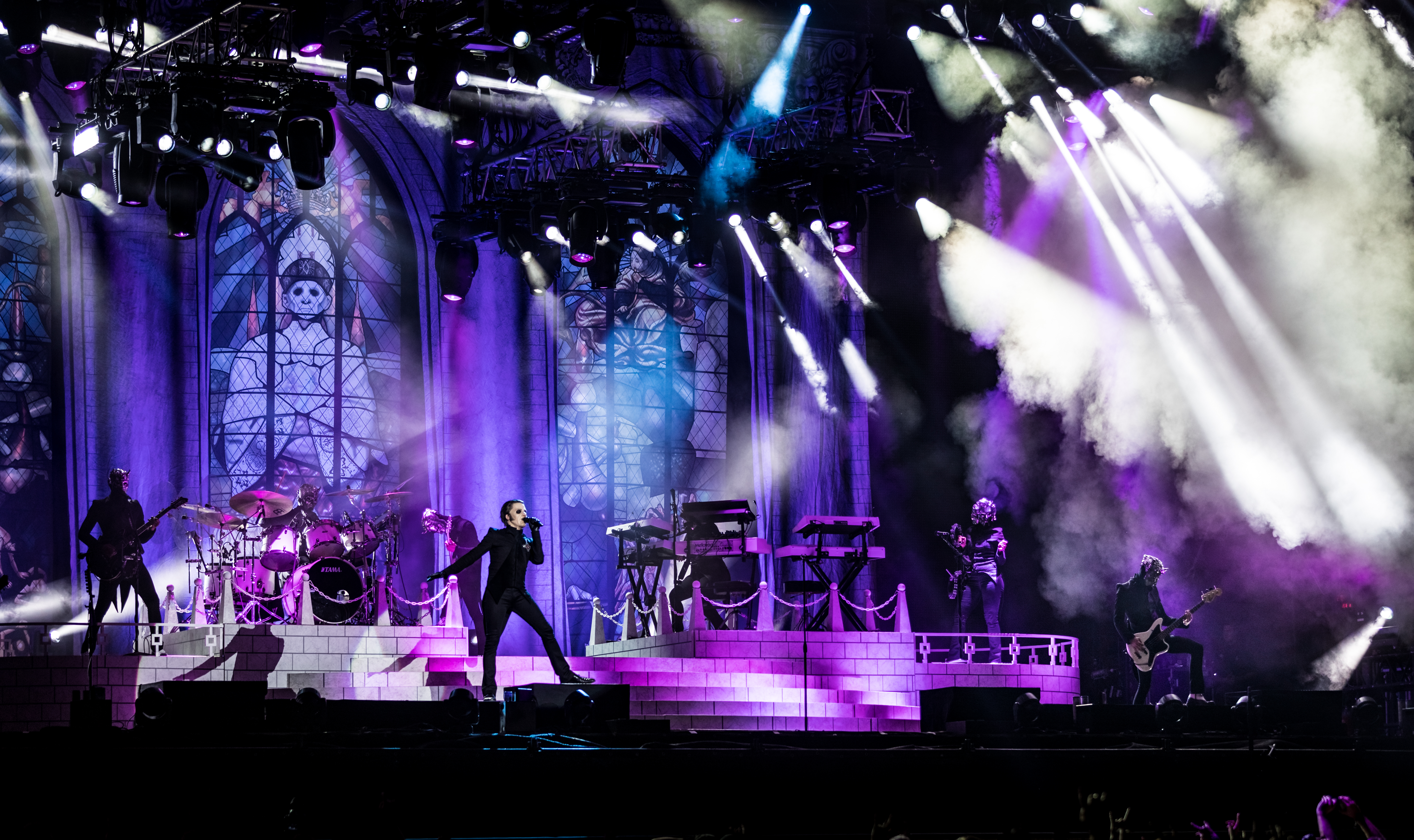 Ghost - Wacken Open Air 2018